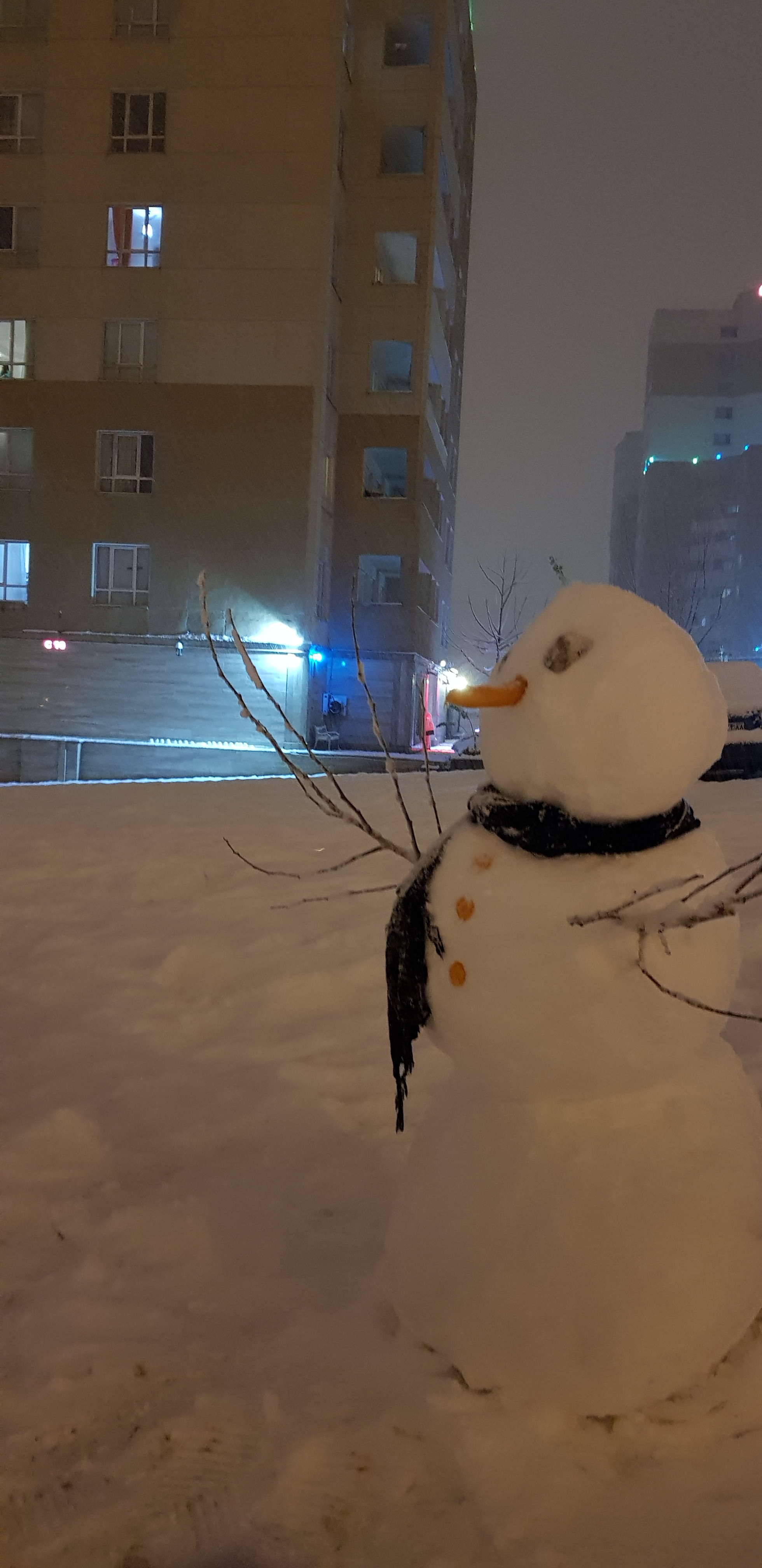 A Snowman at a snowy night of Tehran in January 2018